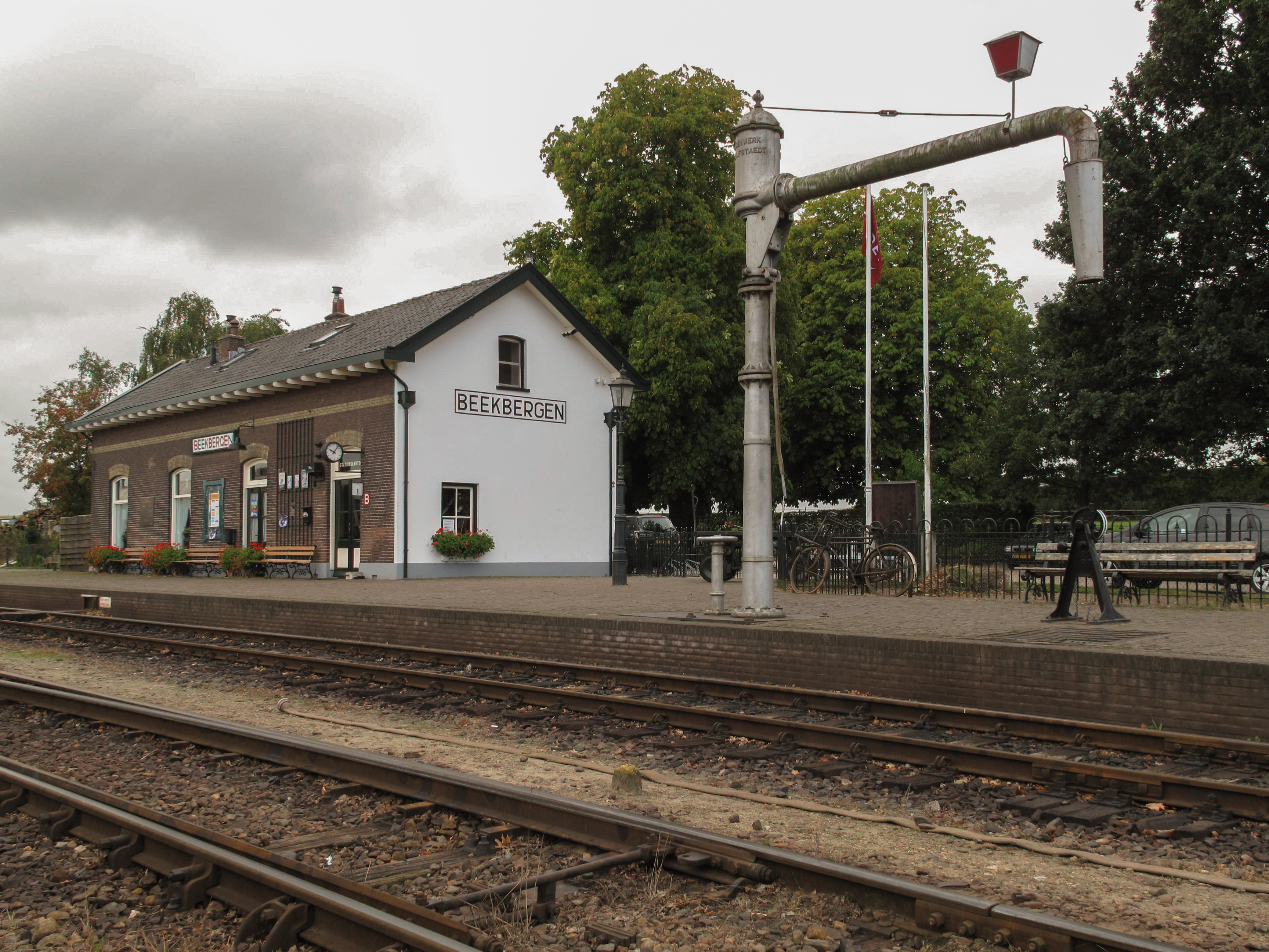 Lieren, railway station Beekbergen